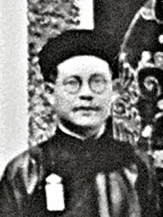 Bùi Bằng Đoàn